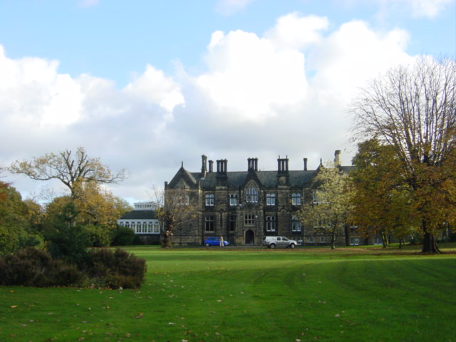 Broughton Hall Roman Catholic comprehensive school, the hall itself is a Gothic house at grid reference SJ412922 in Yew Tree lane West Derby, Liverpool, England, built in 1860 for Gustavus C. Schaube. The conservatory added between 1870 and 1880 is of special interest.